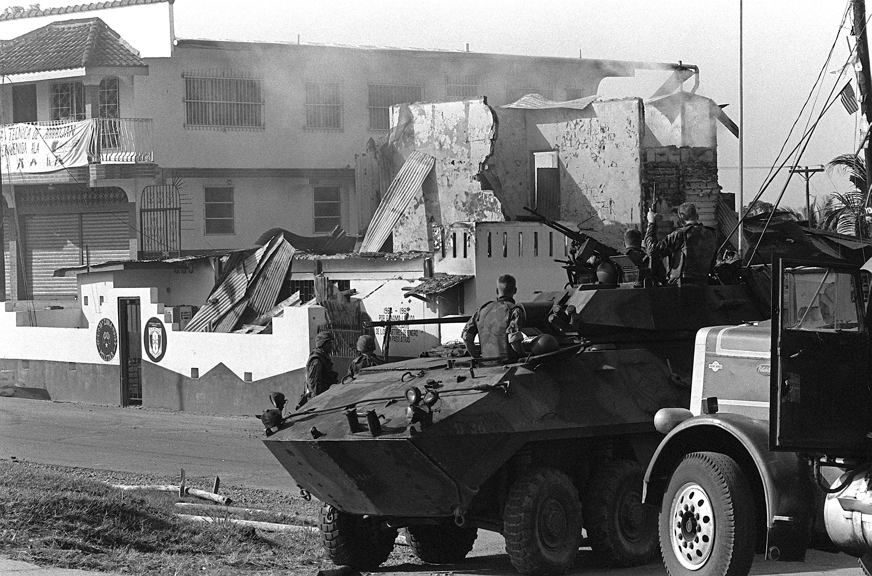 Marines of Company D, 2nd Light Armored Infantry Battalion, stand guard with their LAV-25 light armored vehicles outside a destroyed Panamanian Defense Force building during the first day of Operation Just Cause.